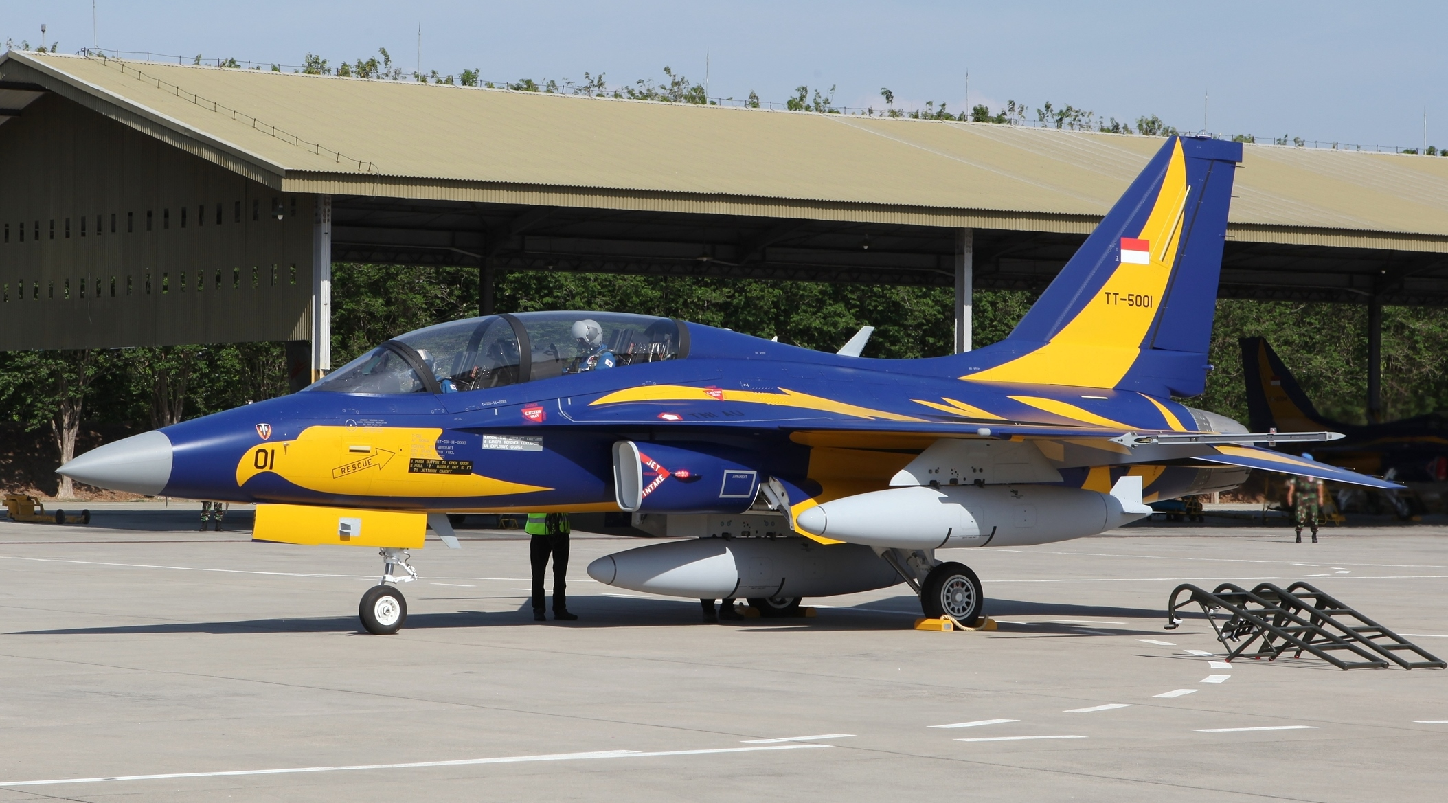 KAI T-50i in Indonesia